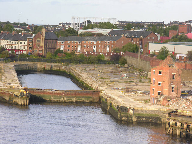 Former drydock, South Shields Close above Mill Dam, this was the largest of the Middle Docks complex of drydocks.